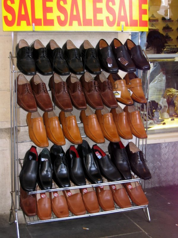 A picture of a shoe stand in London